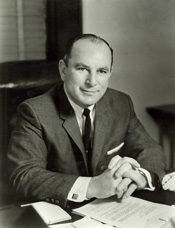 former congressman James M. Hanley of New York.